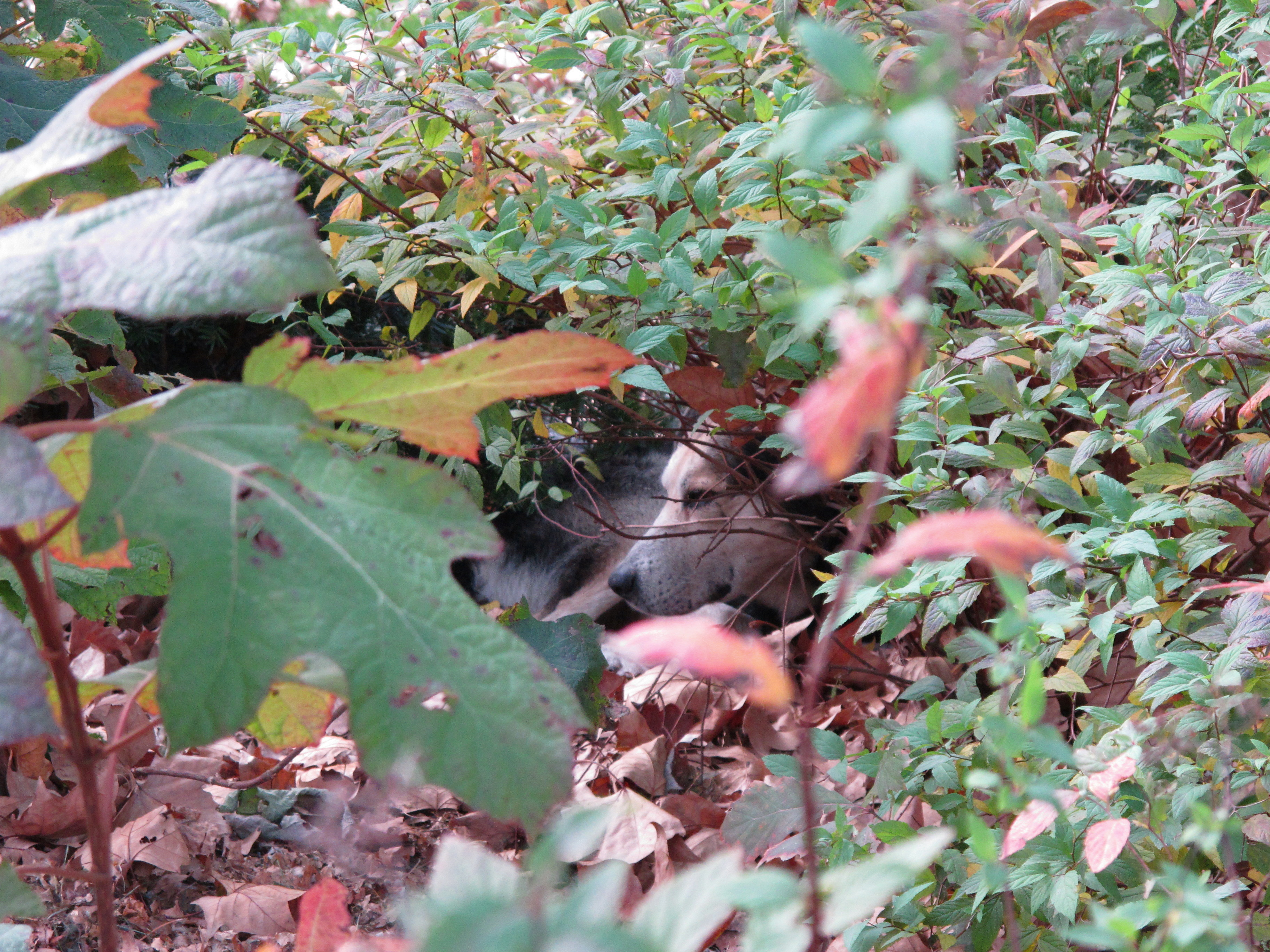 Highbridge Park. This is Ricky, the last of a feral pack that ran in Highbridge for over 150 years.